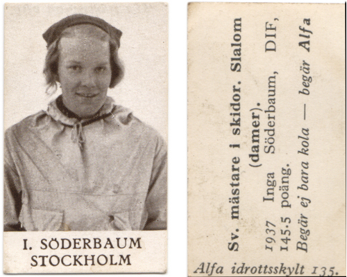 Inga Söderbaum, competing for Djurgårdens IF, DIF, won the first Swedish National Championships in slalom on april, 4th 1937, in Gustavsbergsbacken in Östersund.